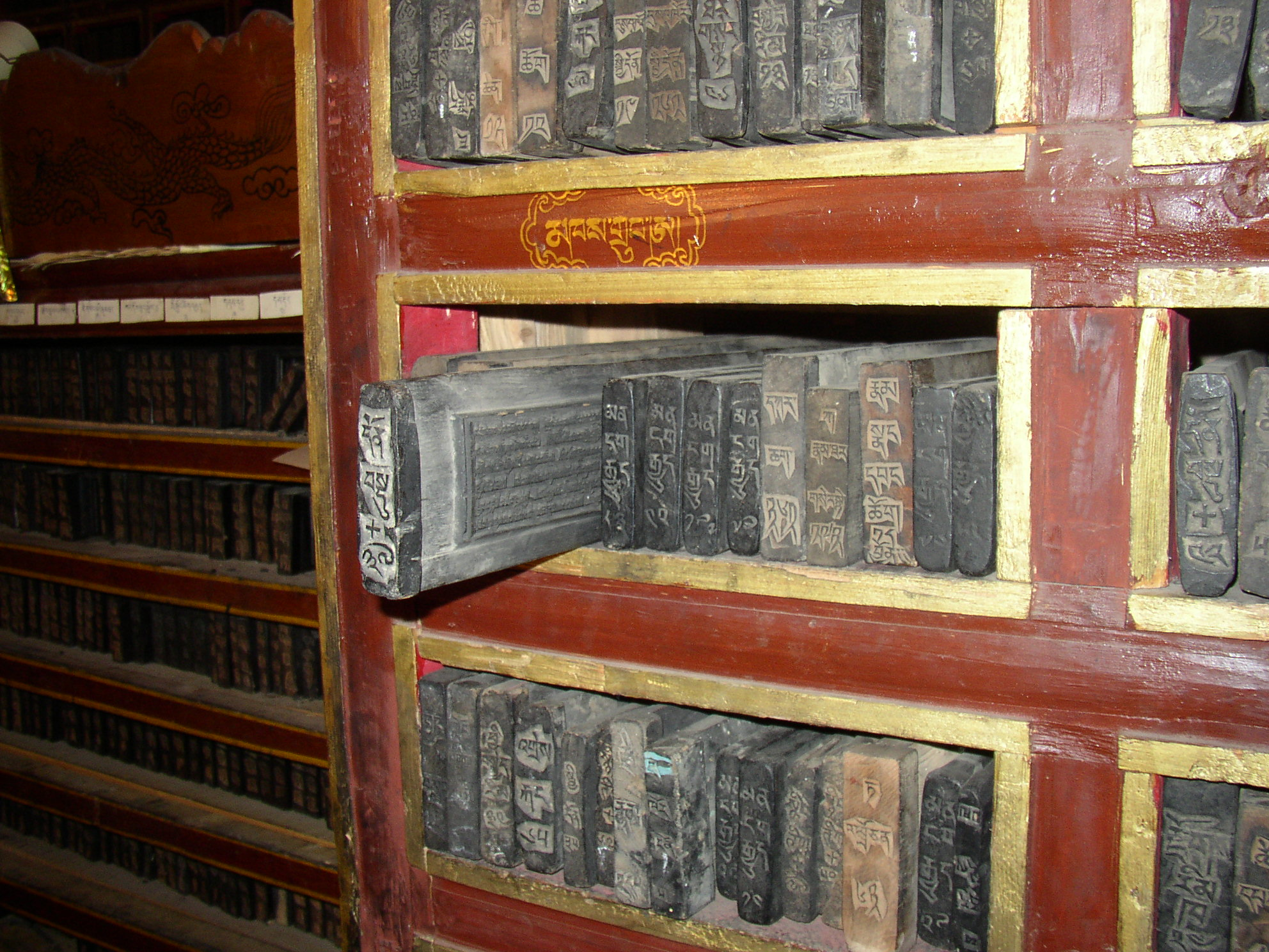 Wooden forms for the production of buddhist scripts in the library of monastery Sera